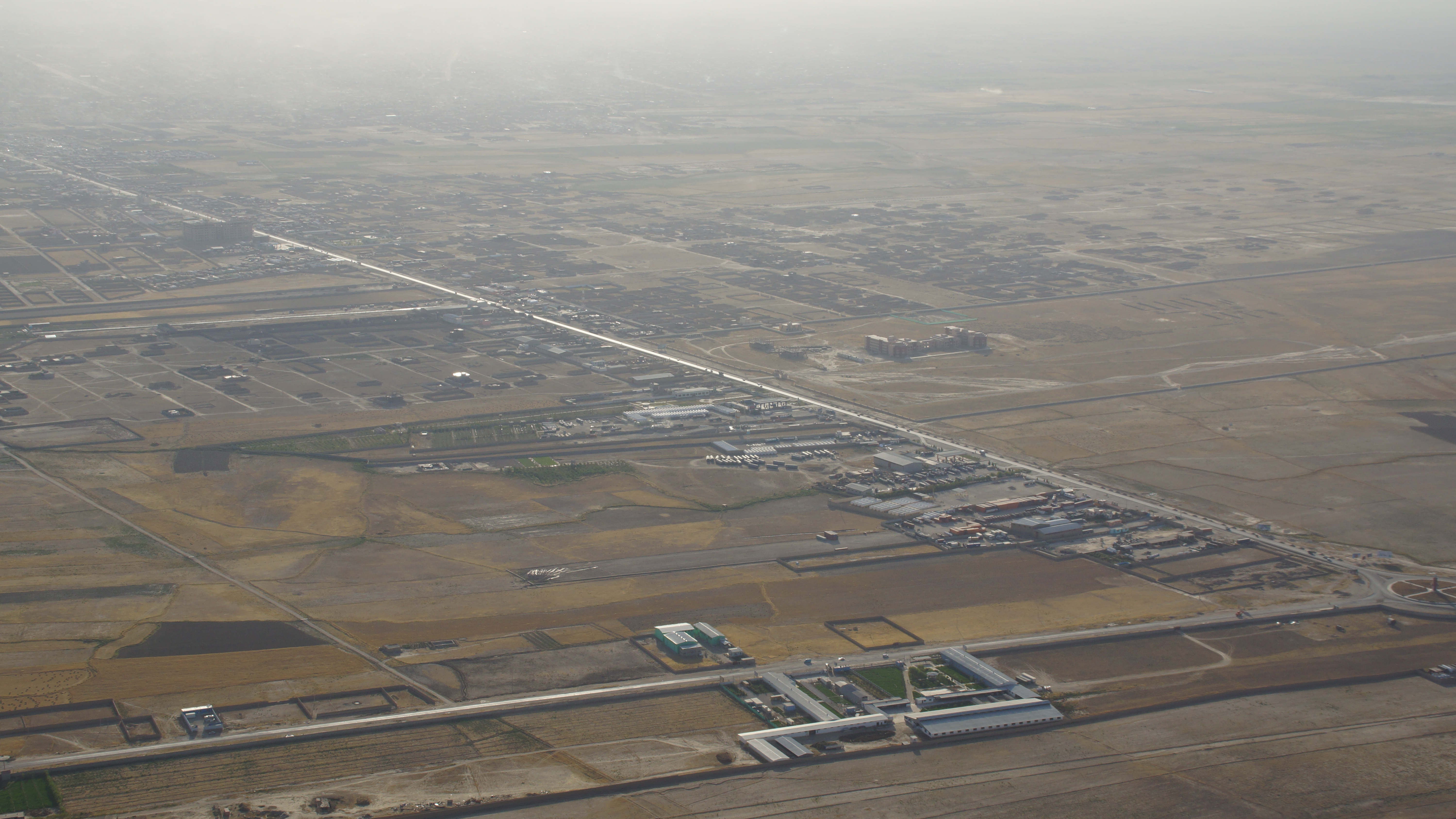 Outskirts of Mazar-e Sharif in northern Afghanistan